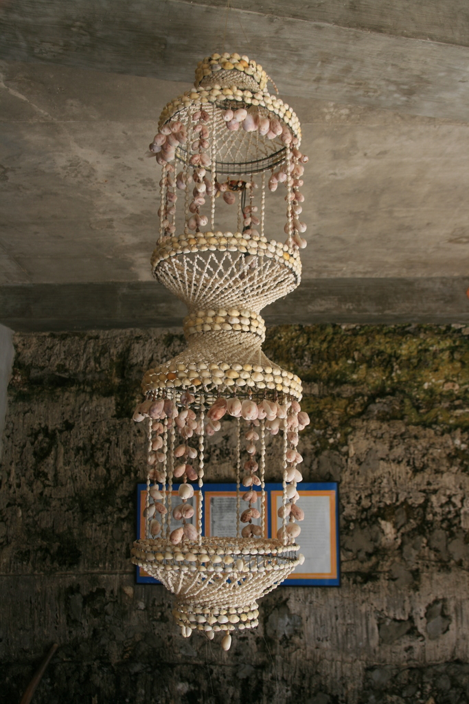 Typical Philippine shell hanging lamp, made of many small shells threaded on string secured to wire frame. About 80 centimetres (2 feet 6 inches).